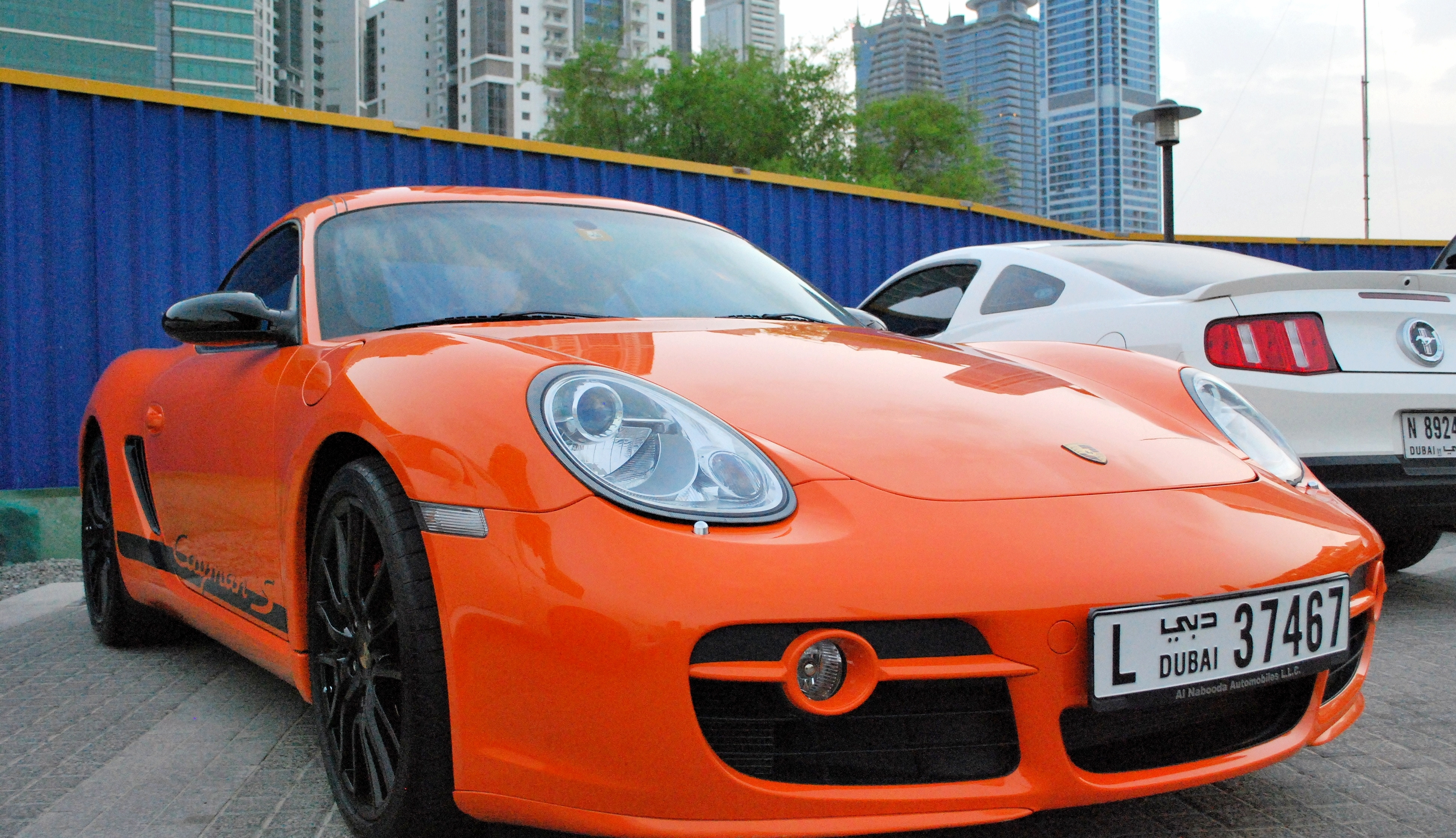 MME Car and Bike Meet @ The Pavillion, Downtown Dubai.